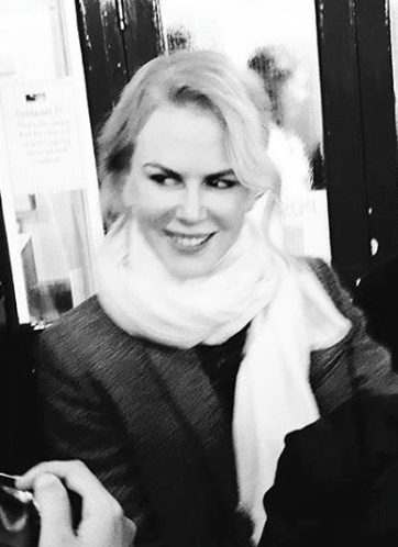 Nicole Kidman leaving the Noel Coward Theatre following a performance of Photograph 51.